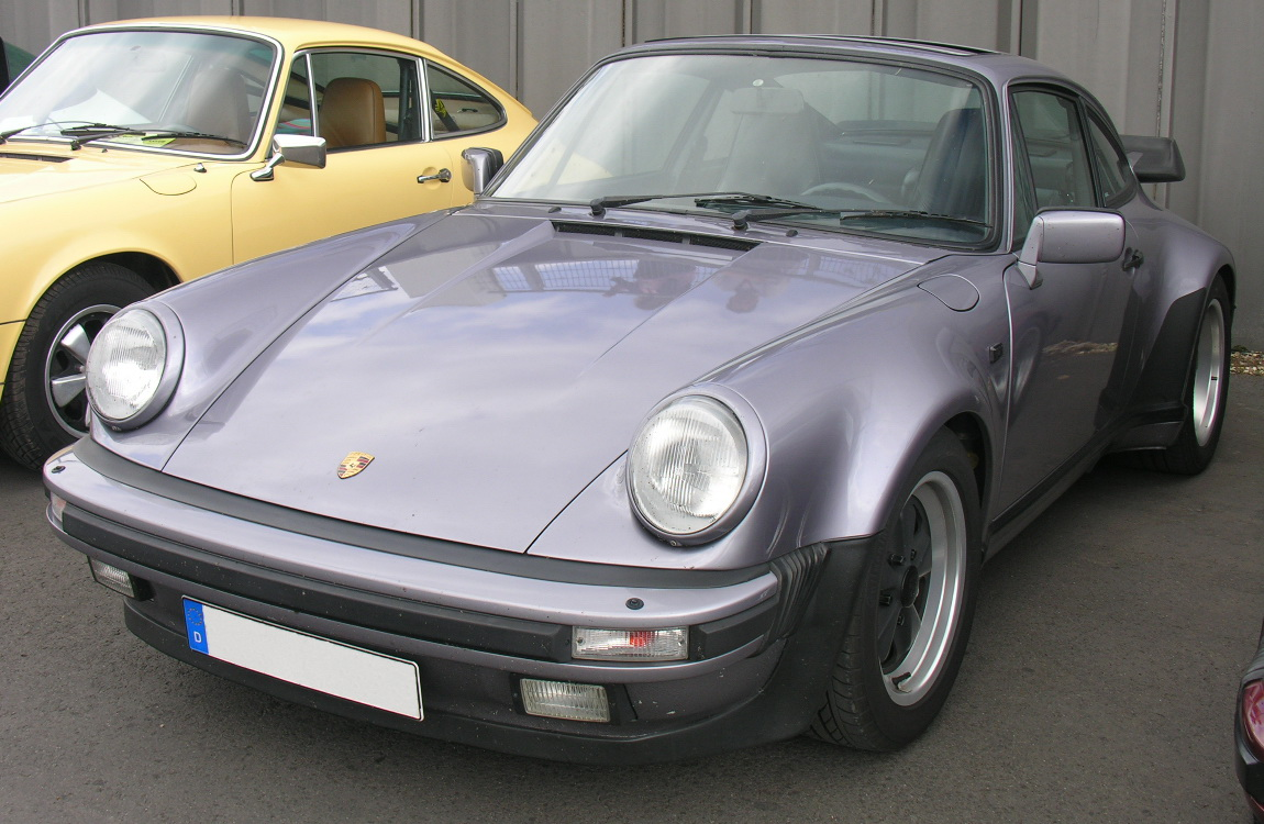 Porsche 911 Turbo (Porsche 930). Photo taken on Nürburgring.